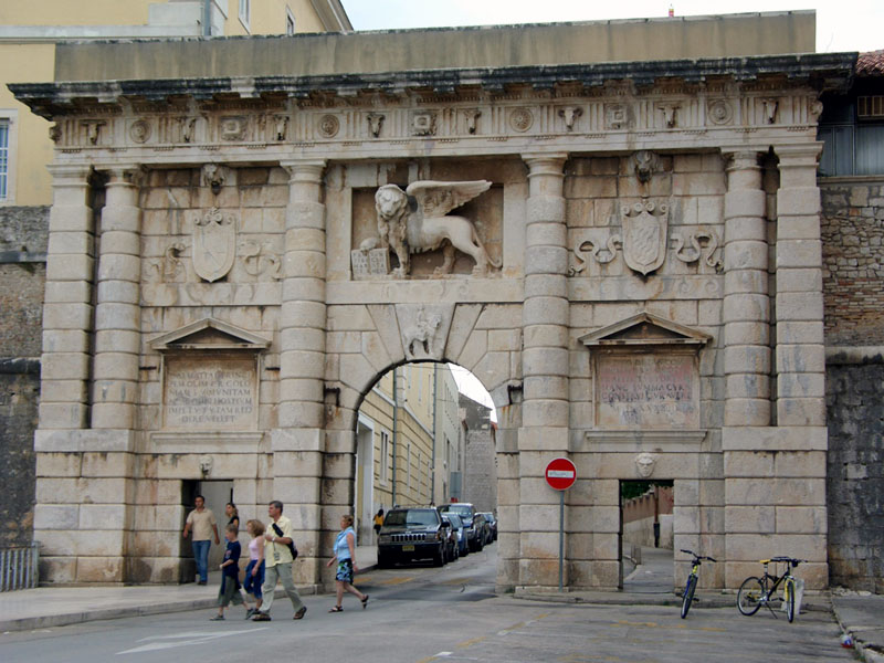 "Porta Terraferma" in Zadar, built under the Venetian rule (the Lion of Saint Mark was the symbol of the Republic of Venice).